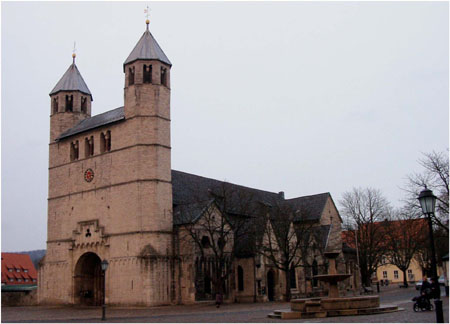 Church in Bad Gandersheim, Germany